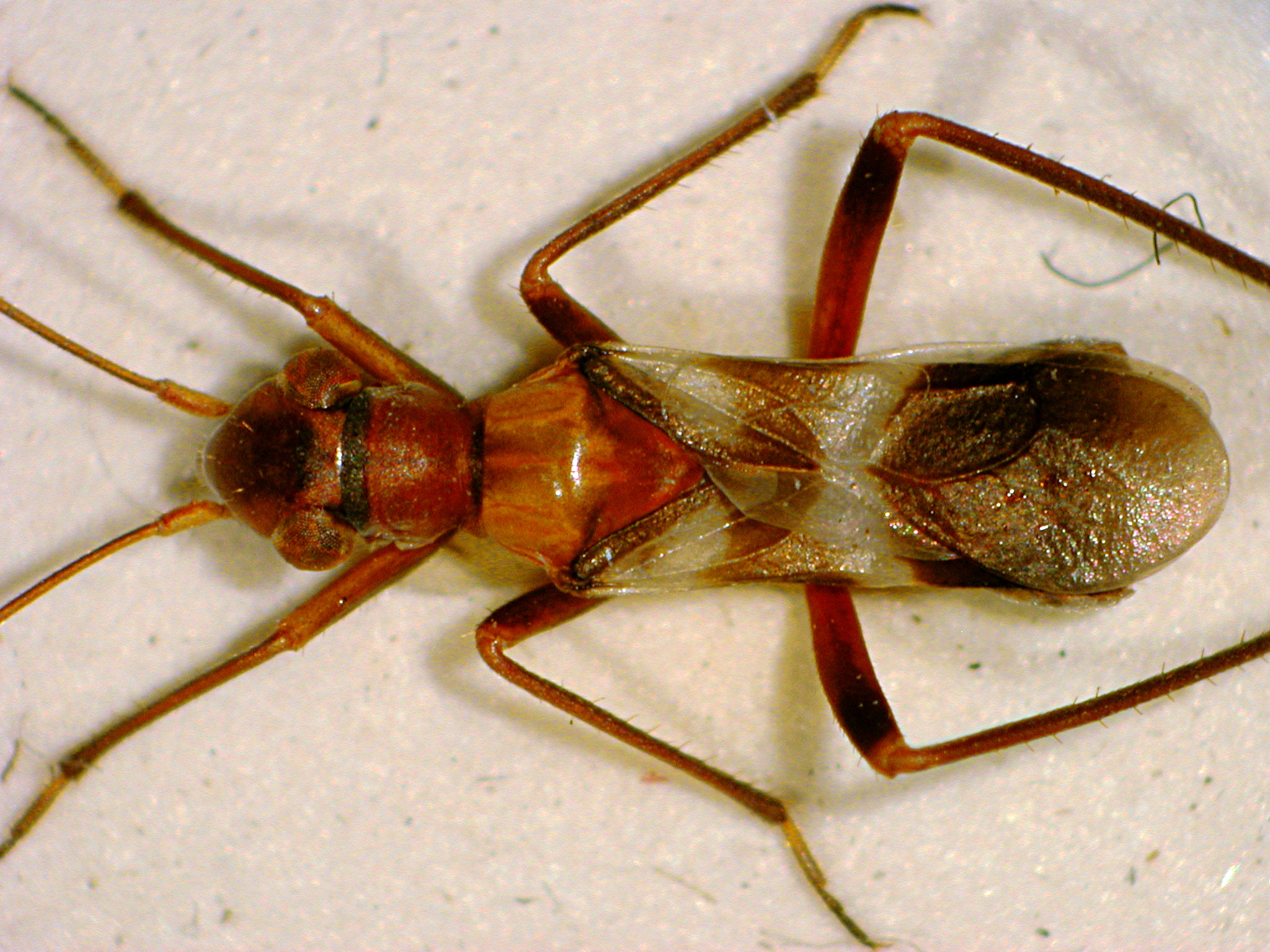 Taken in the Zoologische Staatssammlung München Myrmecoris gracilis; (R.F. Sahlberg, 1848) ♀